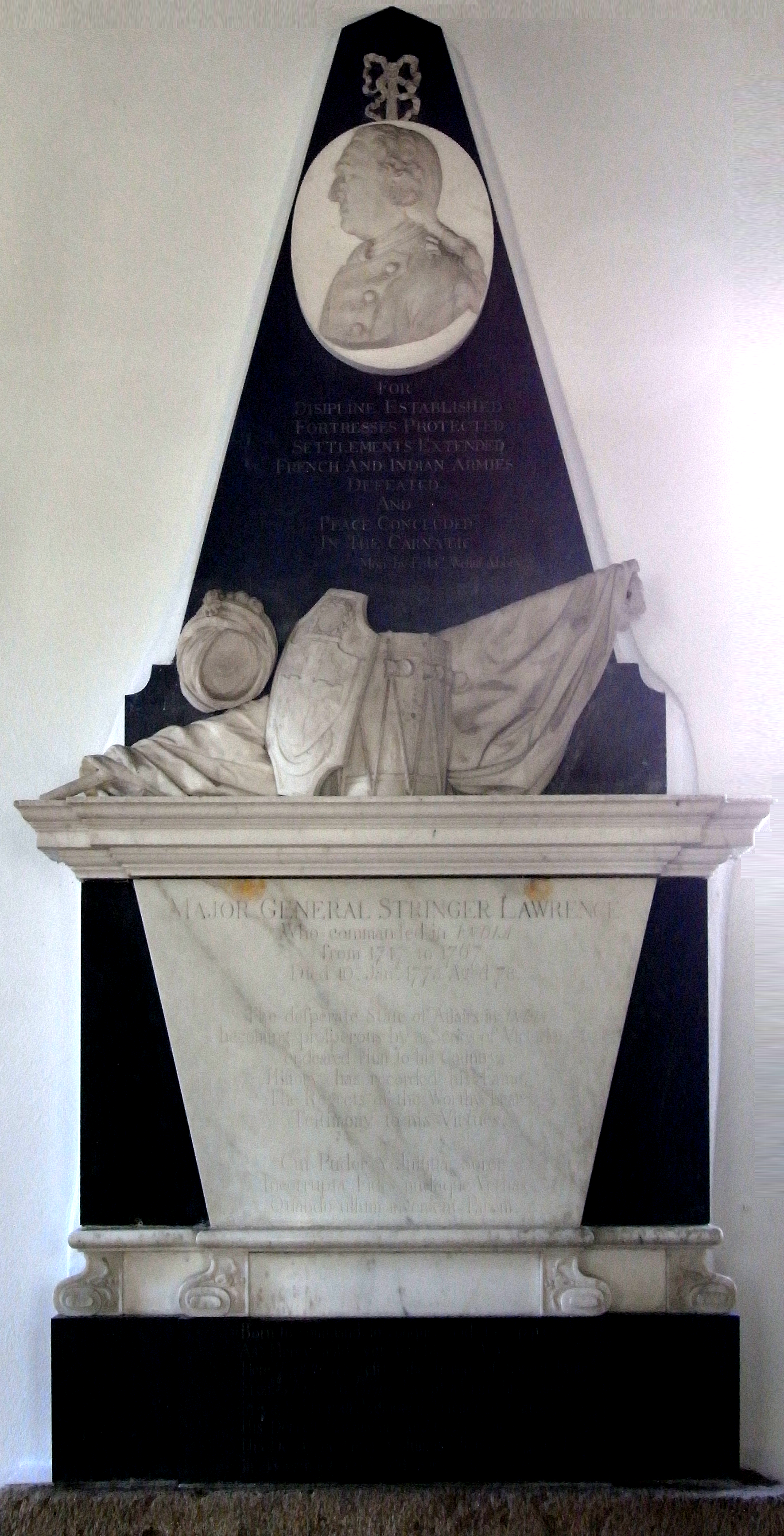 Mural monument to Major-General Stringer Lawrence (1697-1775), Dunchideock Church, Devon